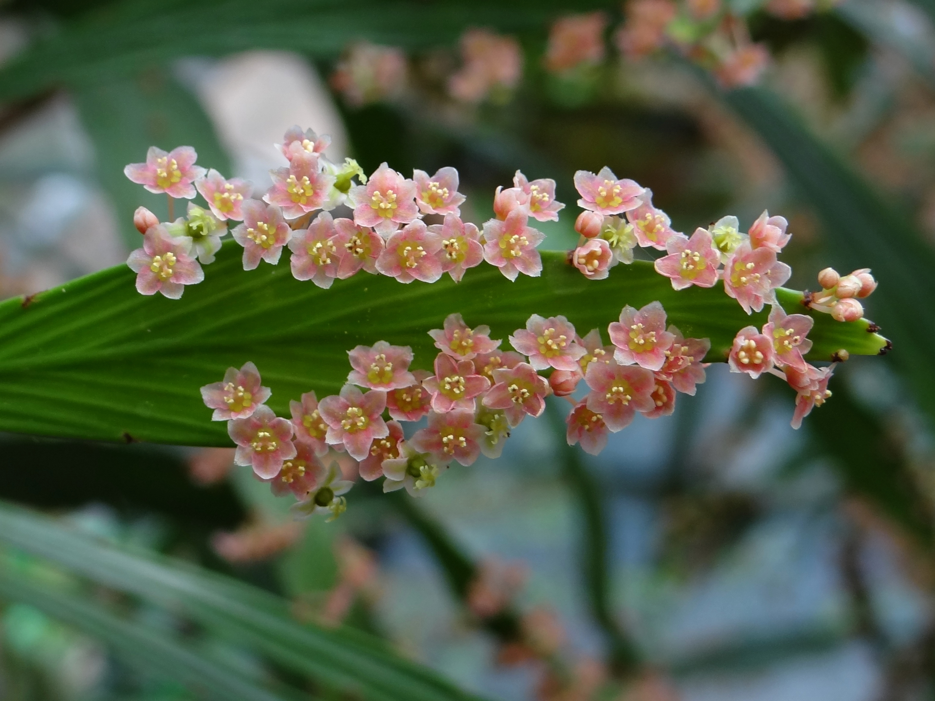 Phyllanthus latifolius (location:Botanical Garden in Cracow)